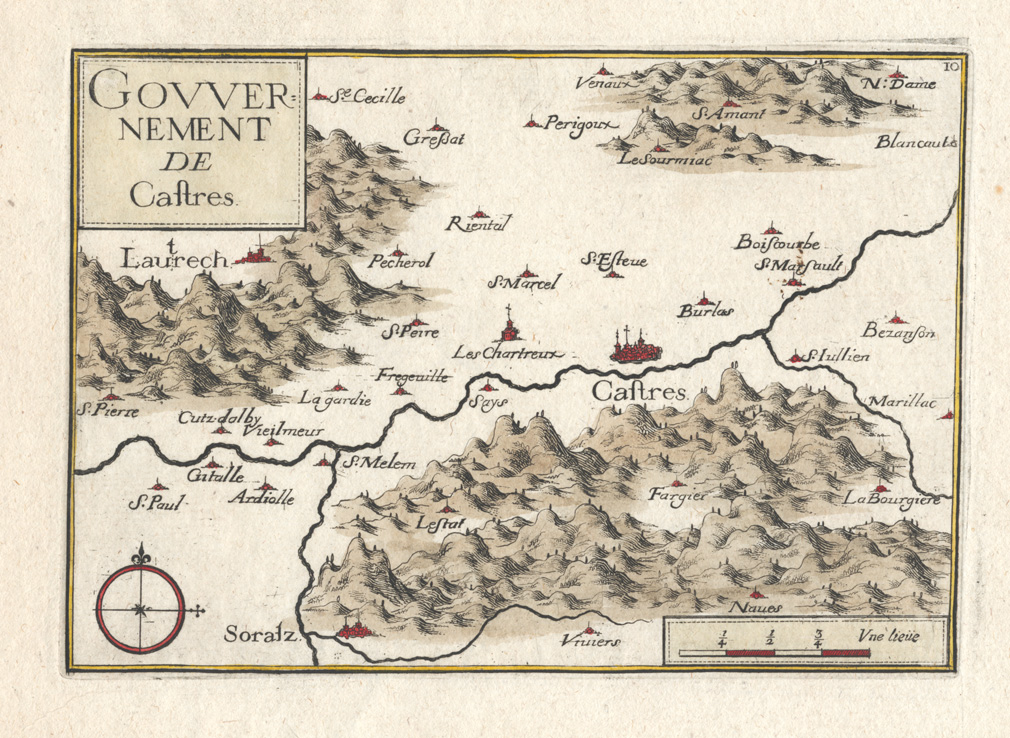 Map of Castres and the surrounding area along the Agout river.